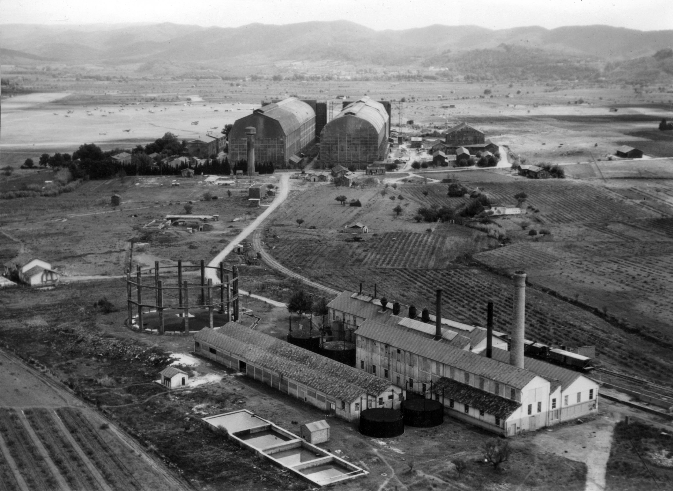 View of the French naval air base Cuers-Pierrefeu, located 5 km north of Toulon, in September 1944. It was used by the U.S. Navy blimp squadron 14 (ZP-14) and RAAF Supermarine Spitfire squadrons.